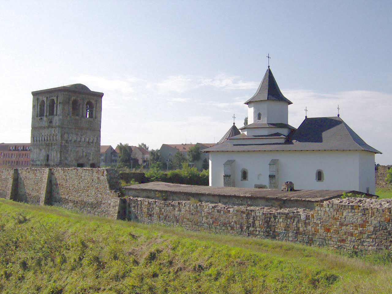 Zamca Monastery in Suceava - St. Auxentie Church and the bell tower.